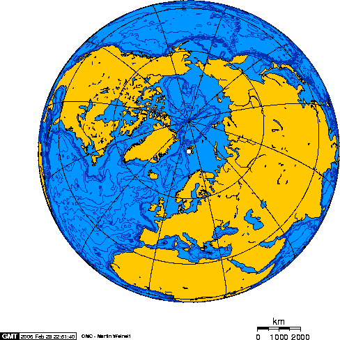 Orthographic projection over Svalbard